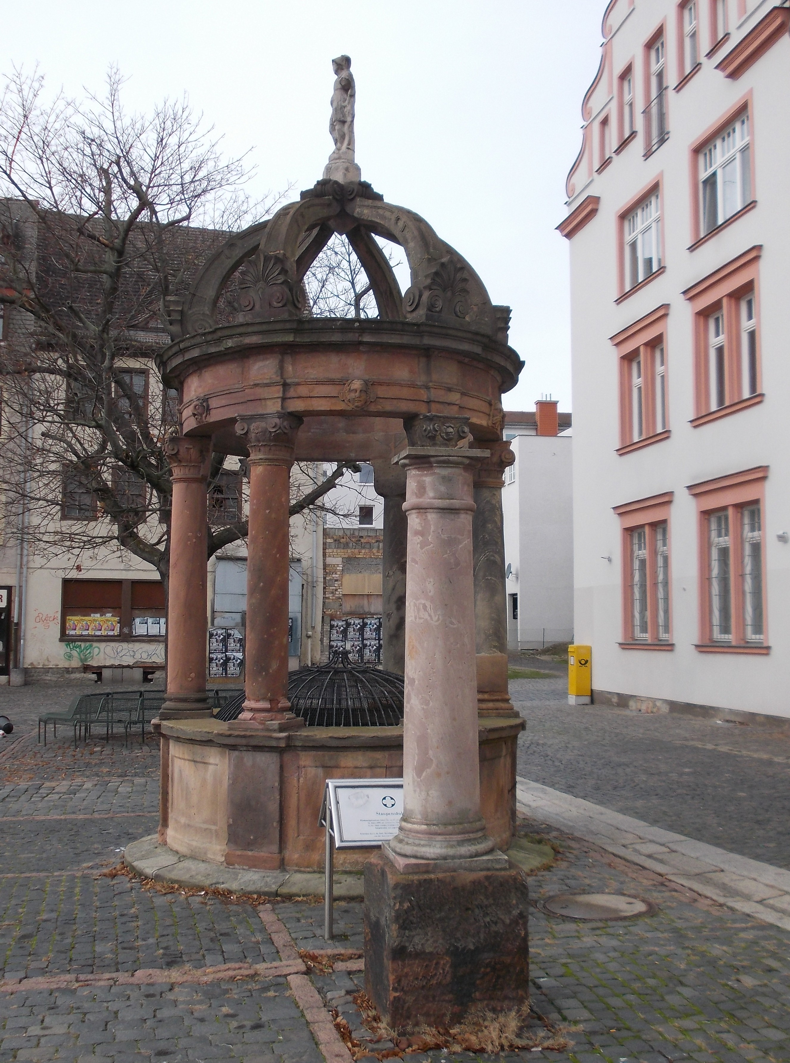 Flogging column and Staupenbrunnen fountain in the market square of Merseburg (district: Saalekreis, Saxony-Anhalt)